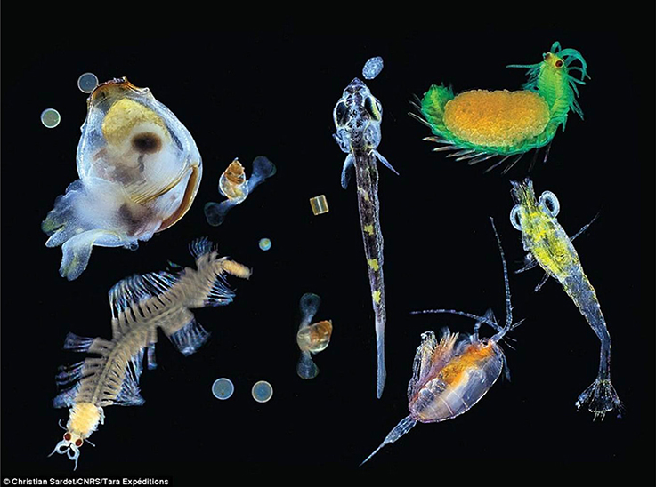 The staggering wealth of plankton species. Diverse assemblages consist of uni- and multicellular organisms with different sizes, morphologies, feeding strategies, ecological functions, life cycle characteristics, and environmental sensitivities. Courtesy of Christian Sardet, from Plankton—Wonders of the Drifting World, Univ Chicago Press 2015.